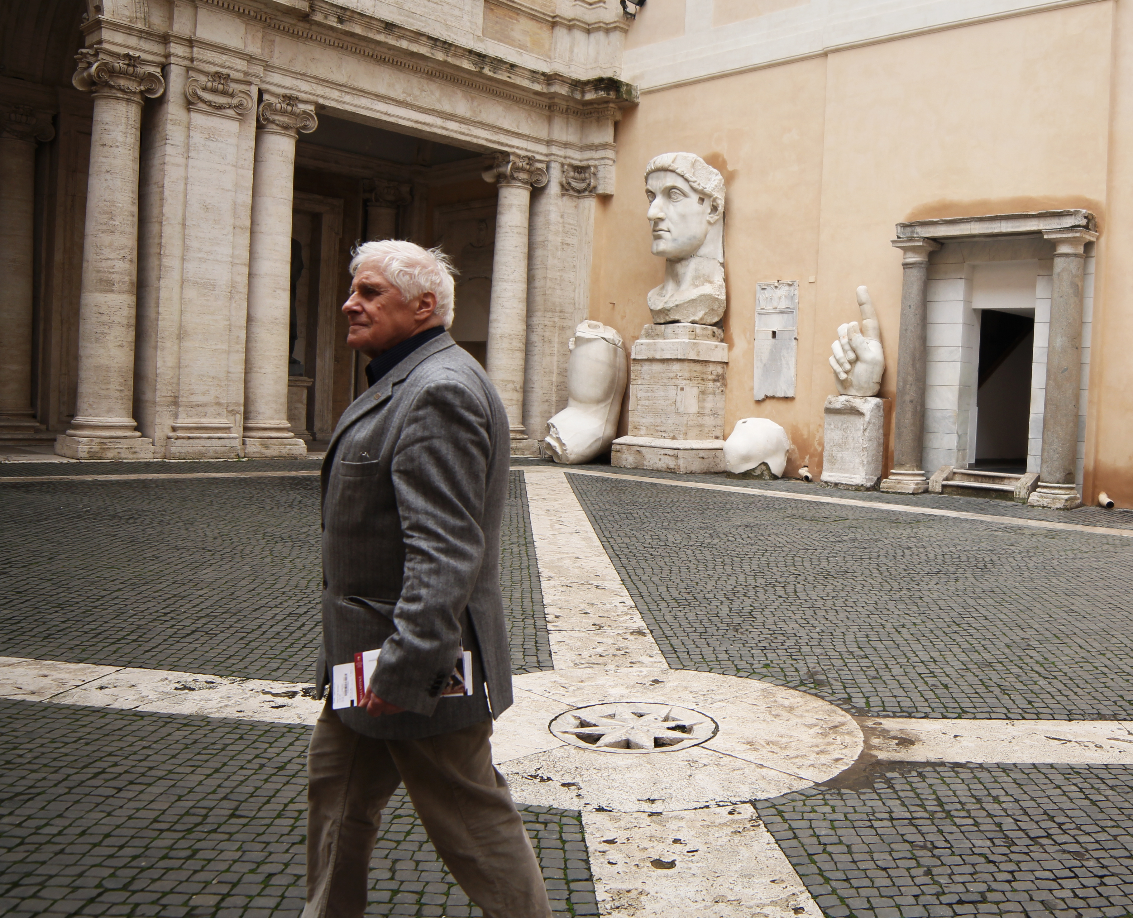 Jerzy Vetulani at Capitoline Hill, Rome.